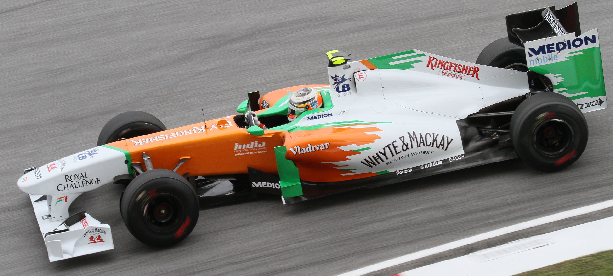 Formula One 2011 Rd.2 Malaysian GP: Nico Hülkenberg (Force India) during the first practice session on Friday.